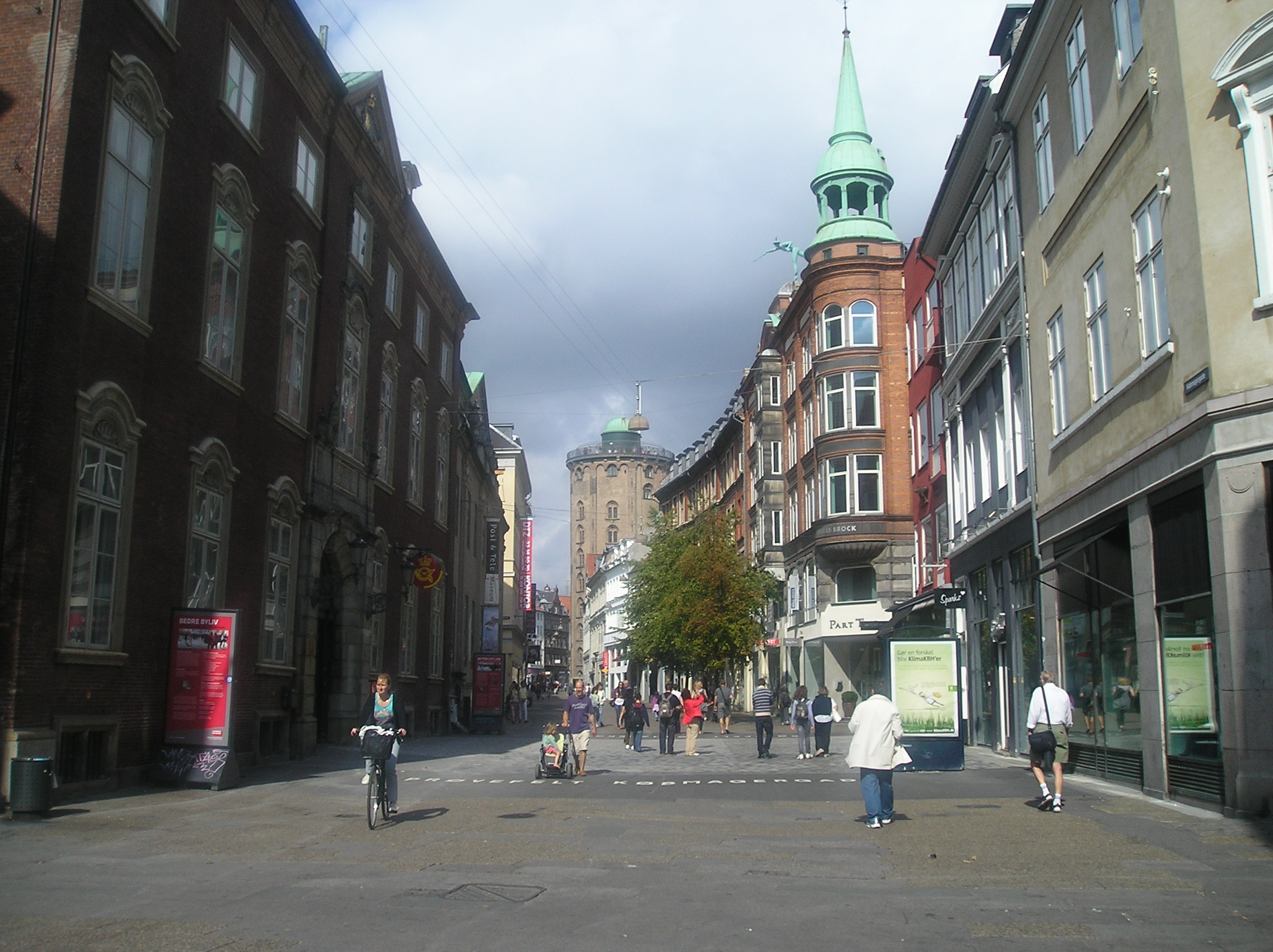 The pedestrianstreet Købmagergade in Copenhagen. In the background Rundetårn (The Round Tower).